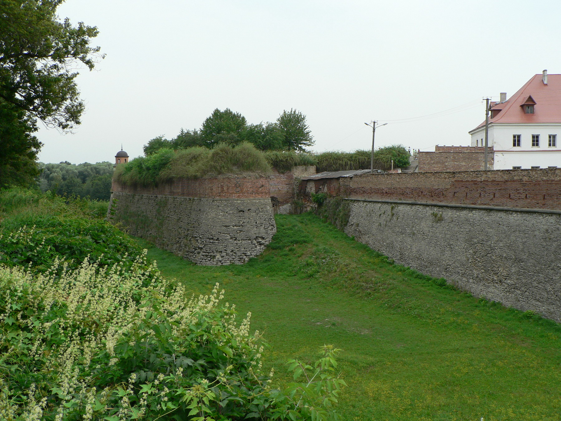 Castle in Dubno